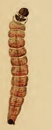 Stainton’s Natural History of the Tineina (1855–1873): Xenolechia aethiops